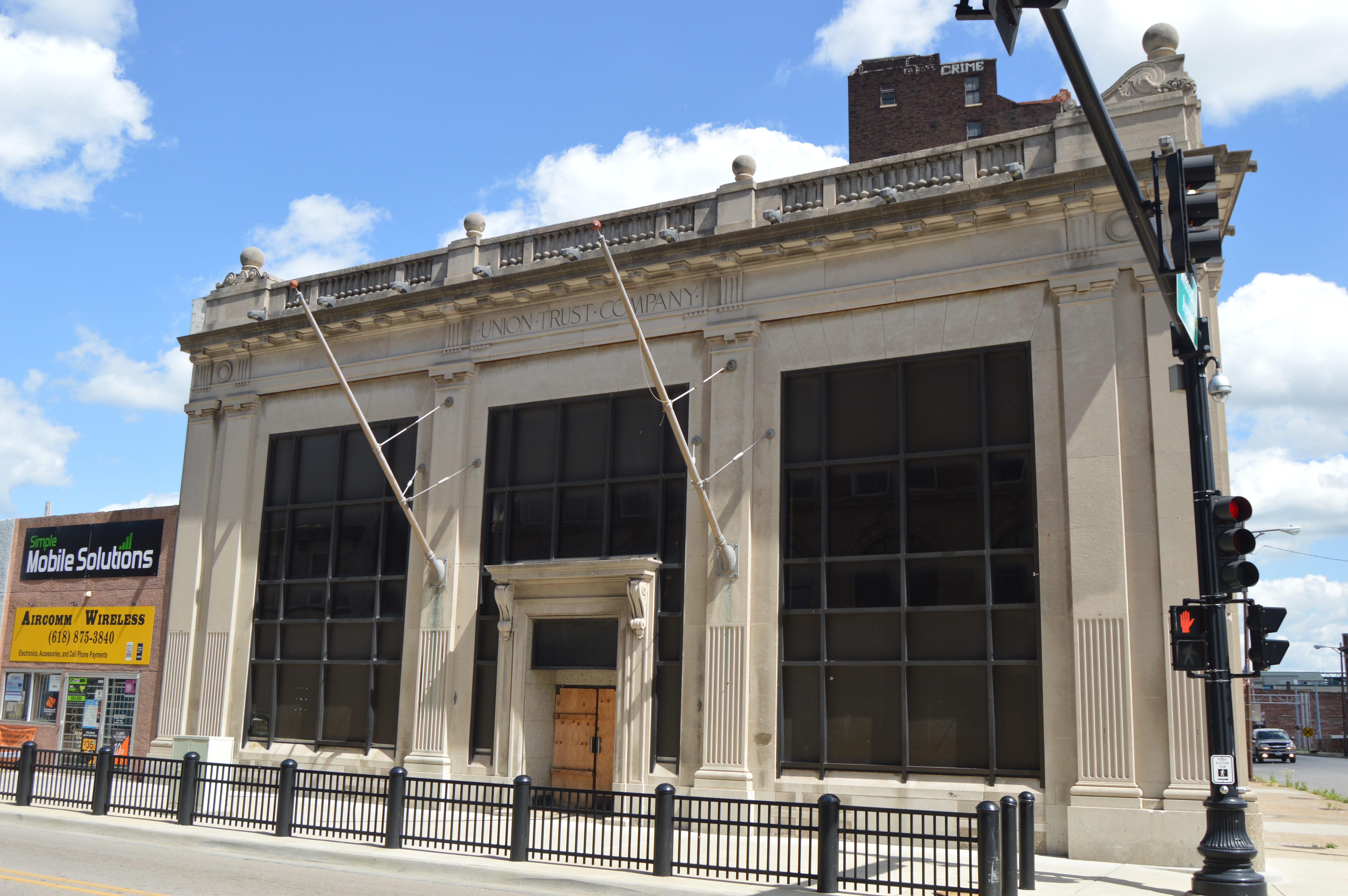 Front of the Union Trust Bank Company Building, located at 200 Collinsville Avenue (historically the city's business district) in East St. Louis, Illinois, United States. Built in 1926, it is listed on the National Register of Historic Places. Note the graffiti atop the Spivey Building in the background.